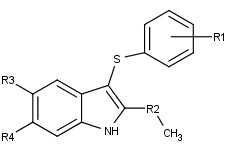 Indole derivatives as PR antagonists with preference of electron withdrawing groups on the aromatic ring